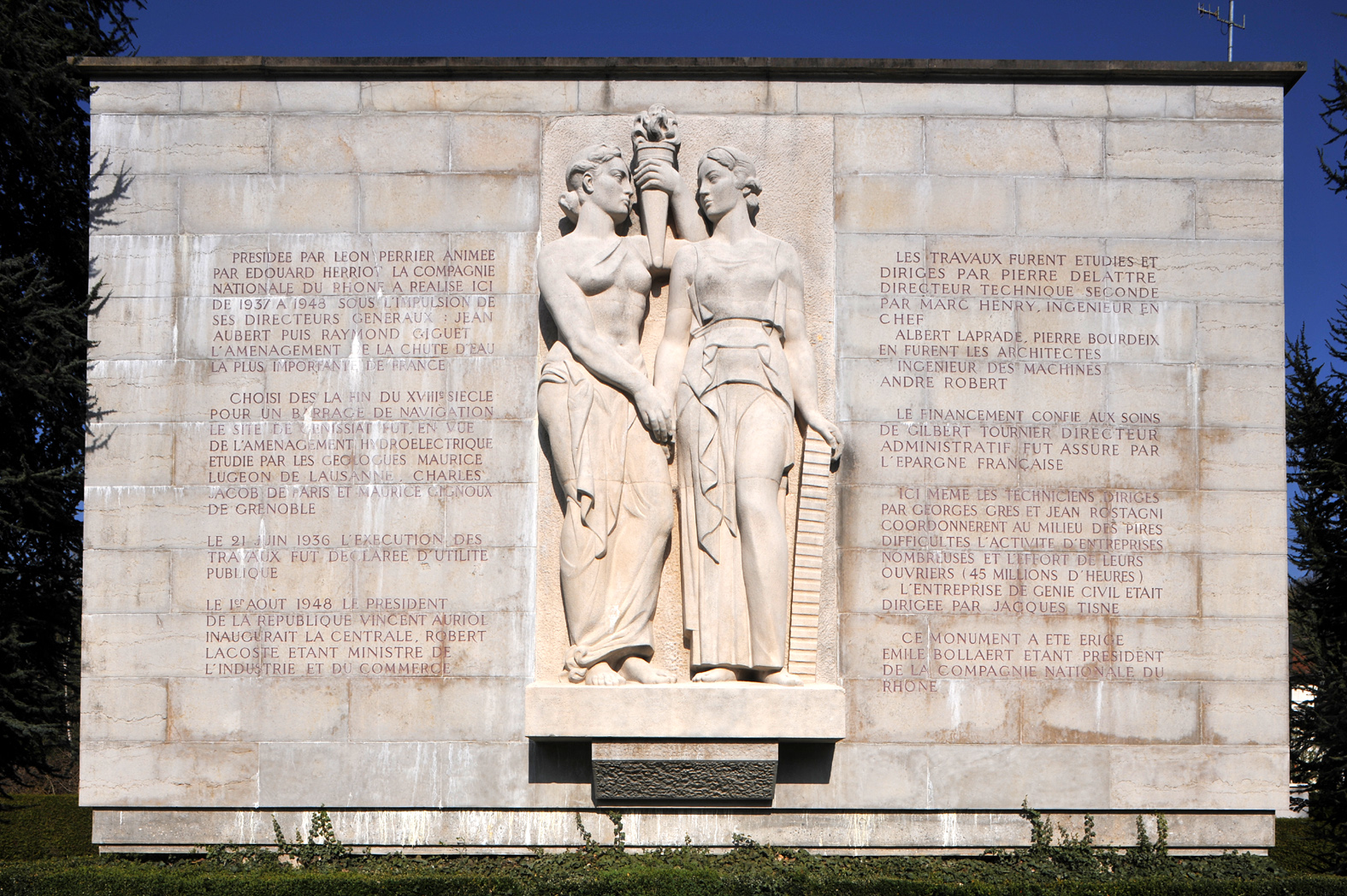 Genissiat dam at the river Rhone, eastside of the monument; Haute-Savoie and Ain, France.